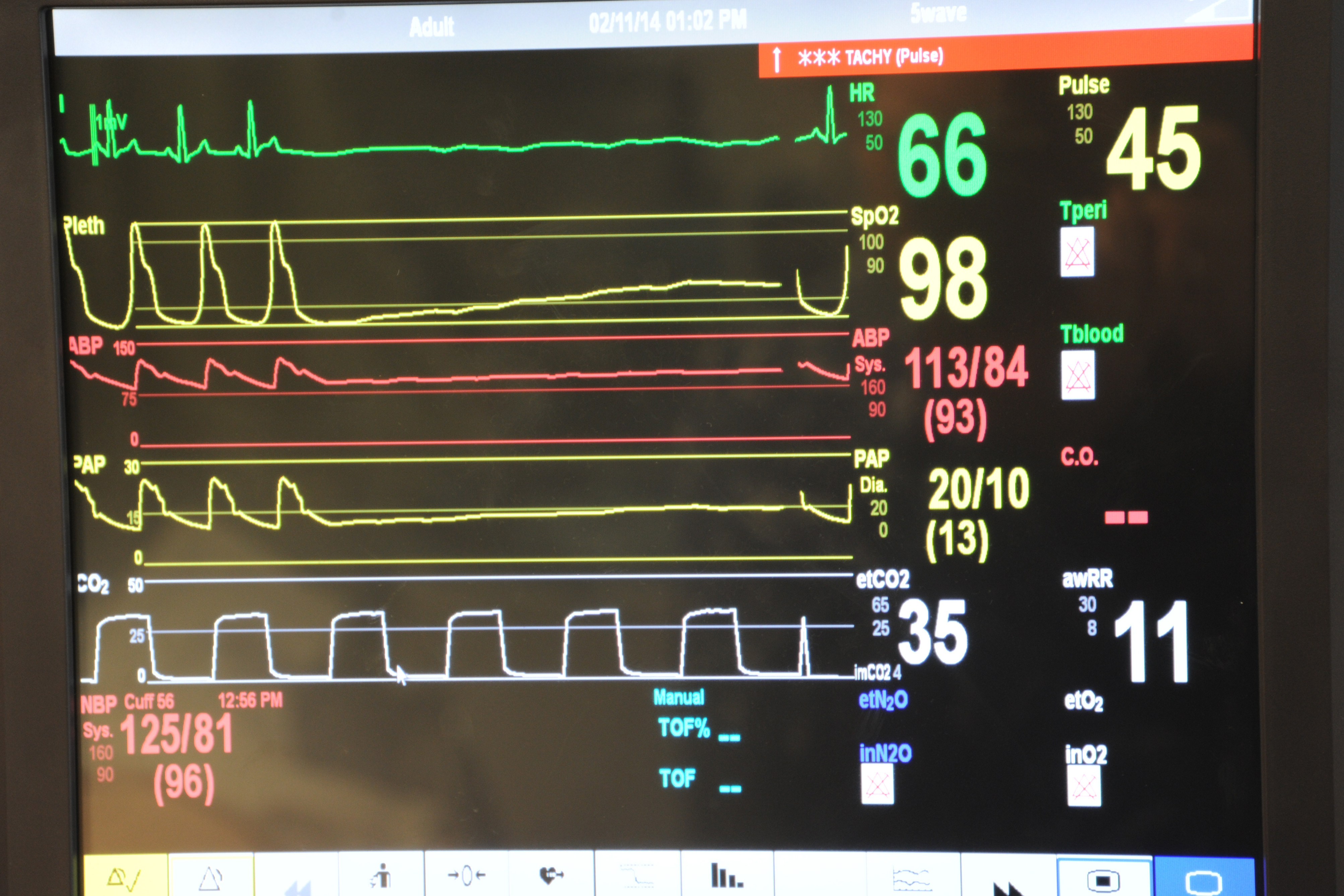 A vital signs monitor shows the heart rate, oxygen saturation and blood pressure on a simulated patient at Naval Hospital Pensacola.